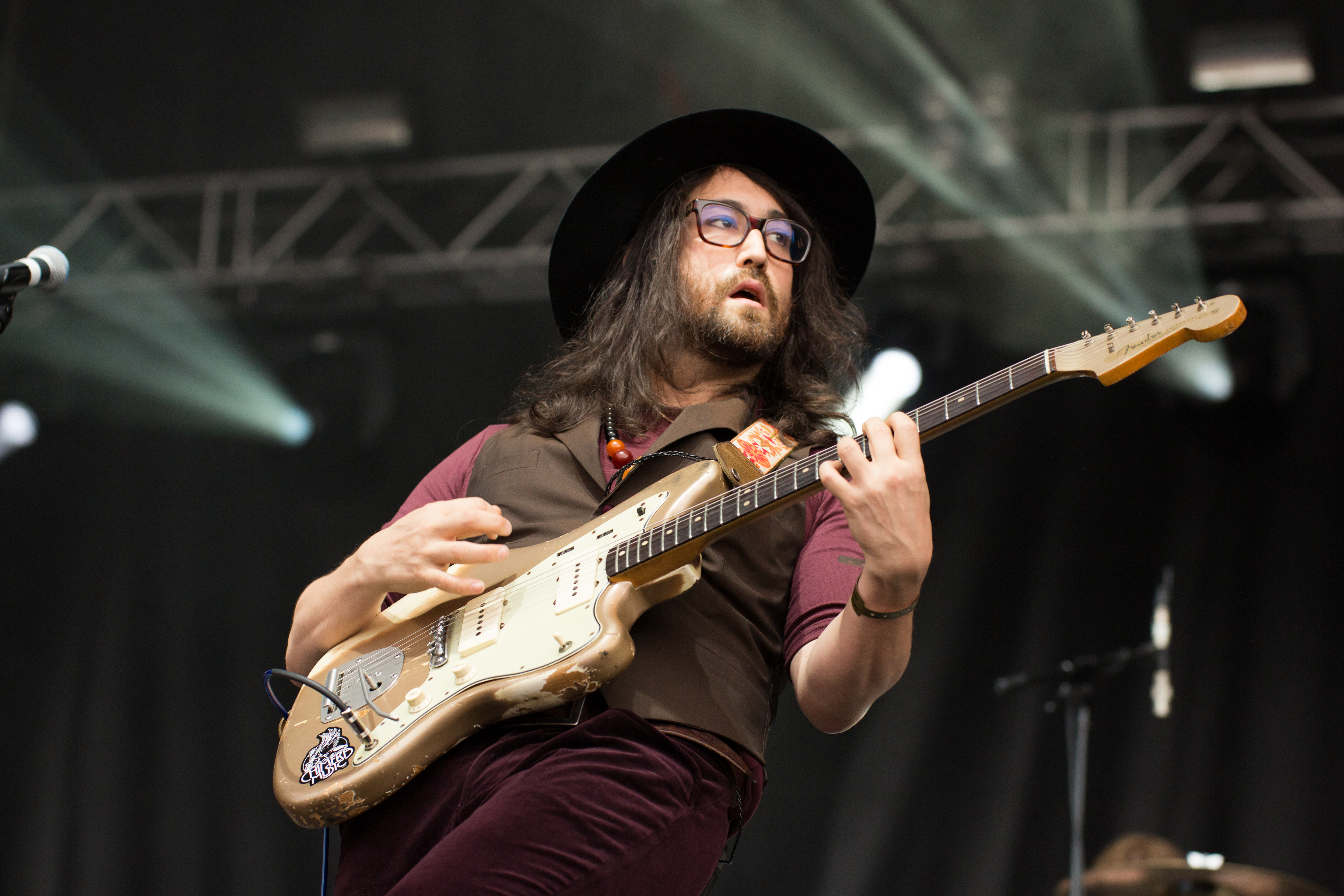 The Ghost of a Saber Tooth Tiger at "le weekend des curiosités 2015", Ramonville, France